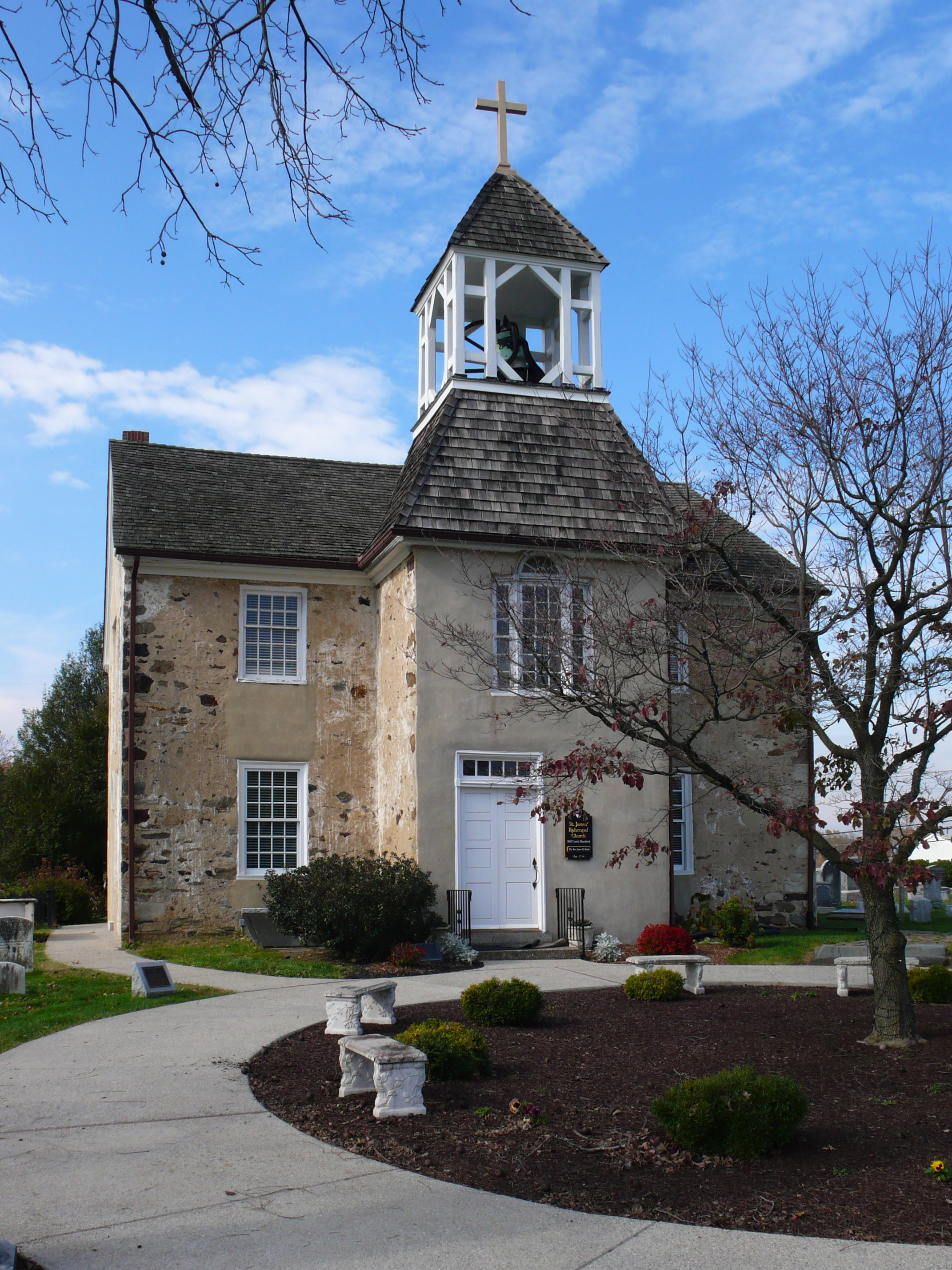 St. James Episcopal Church in New Castle County, Delaware, listed on the National Register of Historic Places